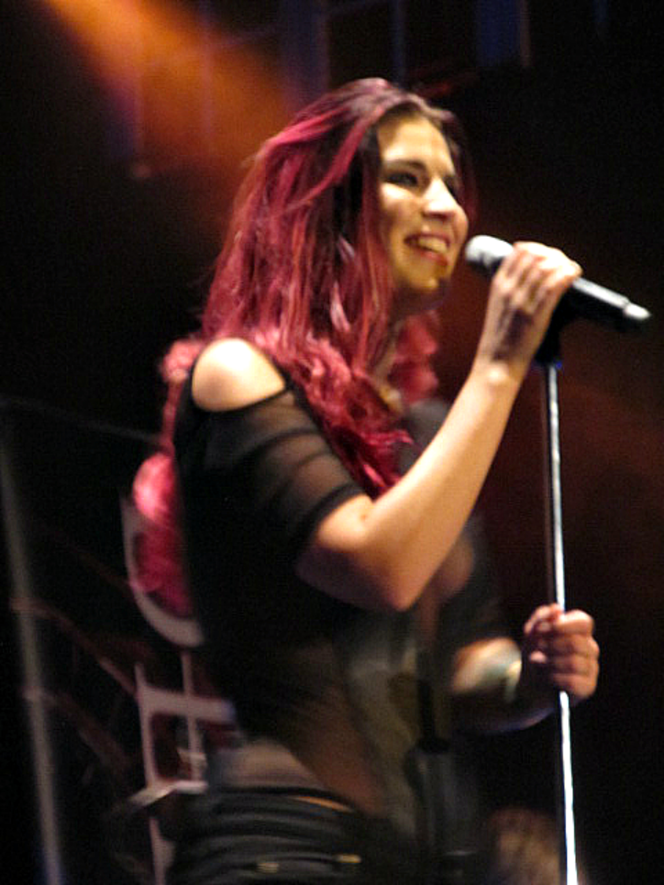 Charlotte Wessels live at the House of Blues Orlando, supporting Sonata Arctica.